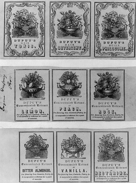 Nine advertisement labels for Dupuy products. Advertisements for hair tonic, hair detergent, huile philocome, six flavors of concentrated extract.